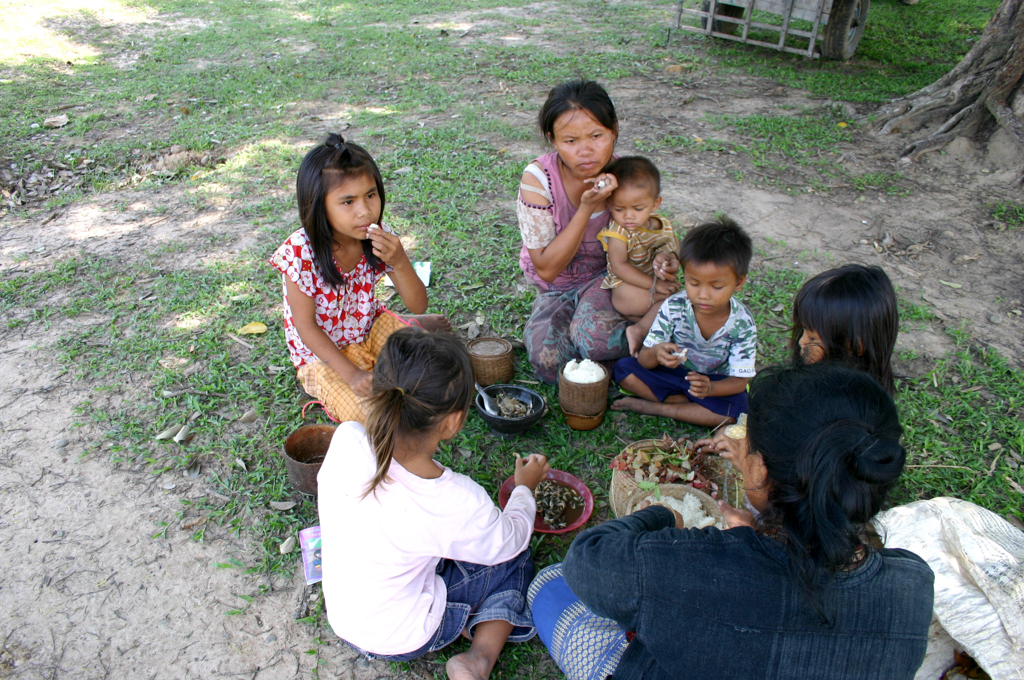 A family in Savannakhet province of Laos takes advantage of good weather to eat outdoors, perhaps taking a lunch break during a workday. Two baskets of sticky rice, a Lao staple, are visible. It’s supplemented by vegetables, dip, and perhaps a small amount of meat. This family is Mangkong (also known as Makong), one of the 49 officially-recognized ethnic groups in Laos. The Mangkong largely live in Savannakhet and Khammuan provinces.